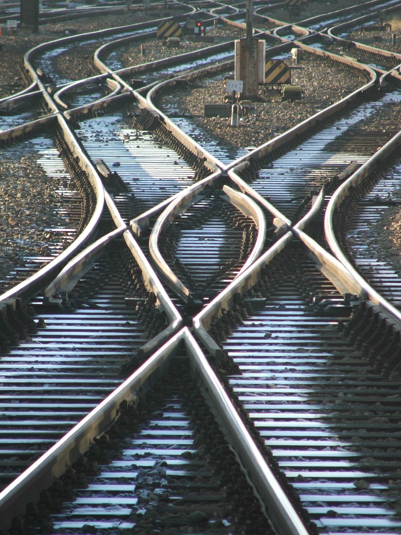 double crossing railway switches at the München central station